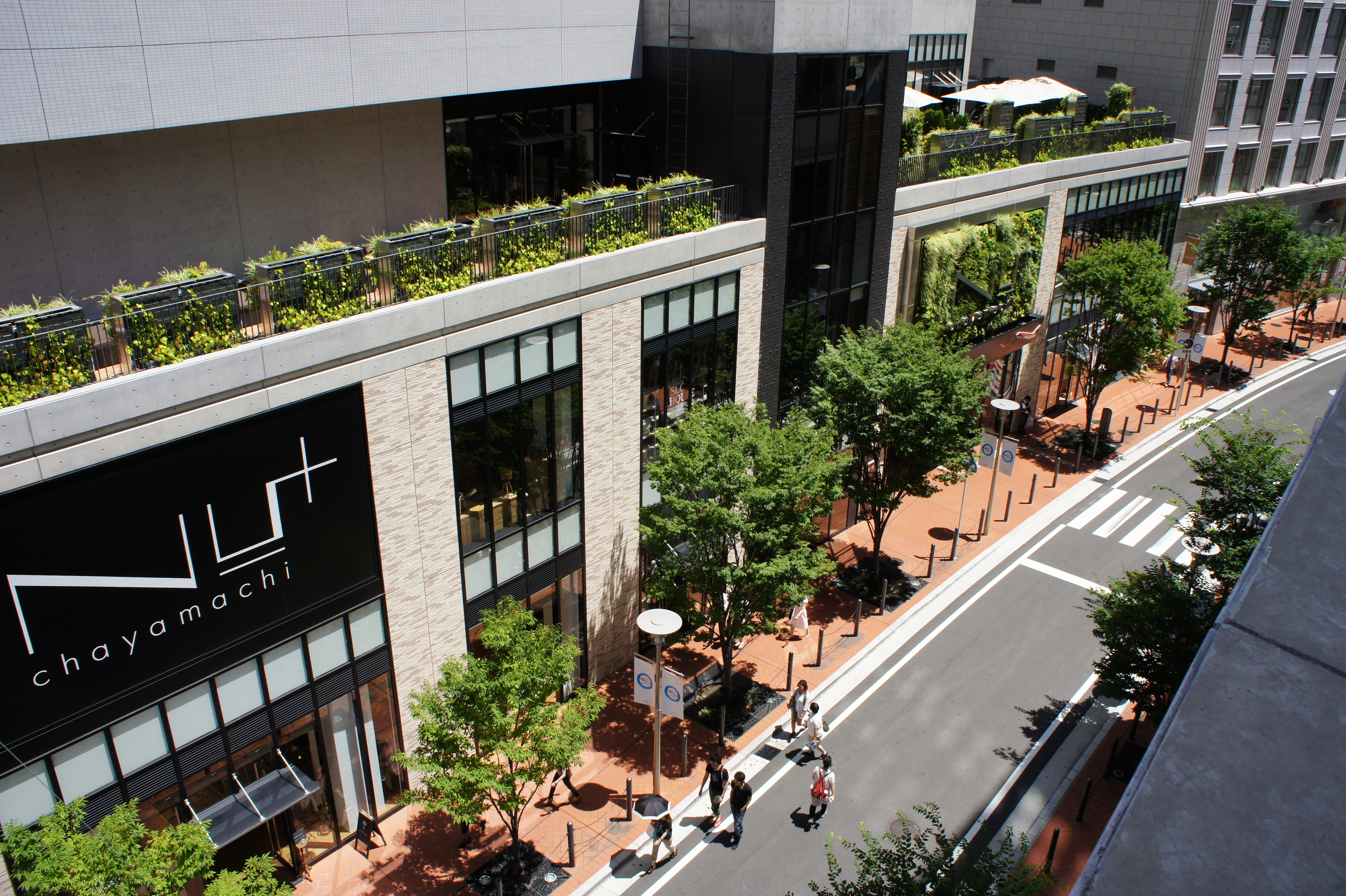 at Chayamachi, Kita-ku, Osaka, Osaka prefecture, Japan